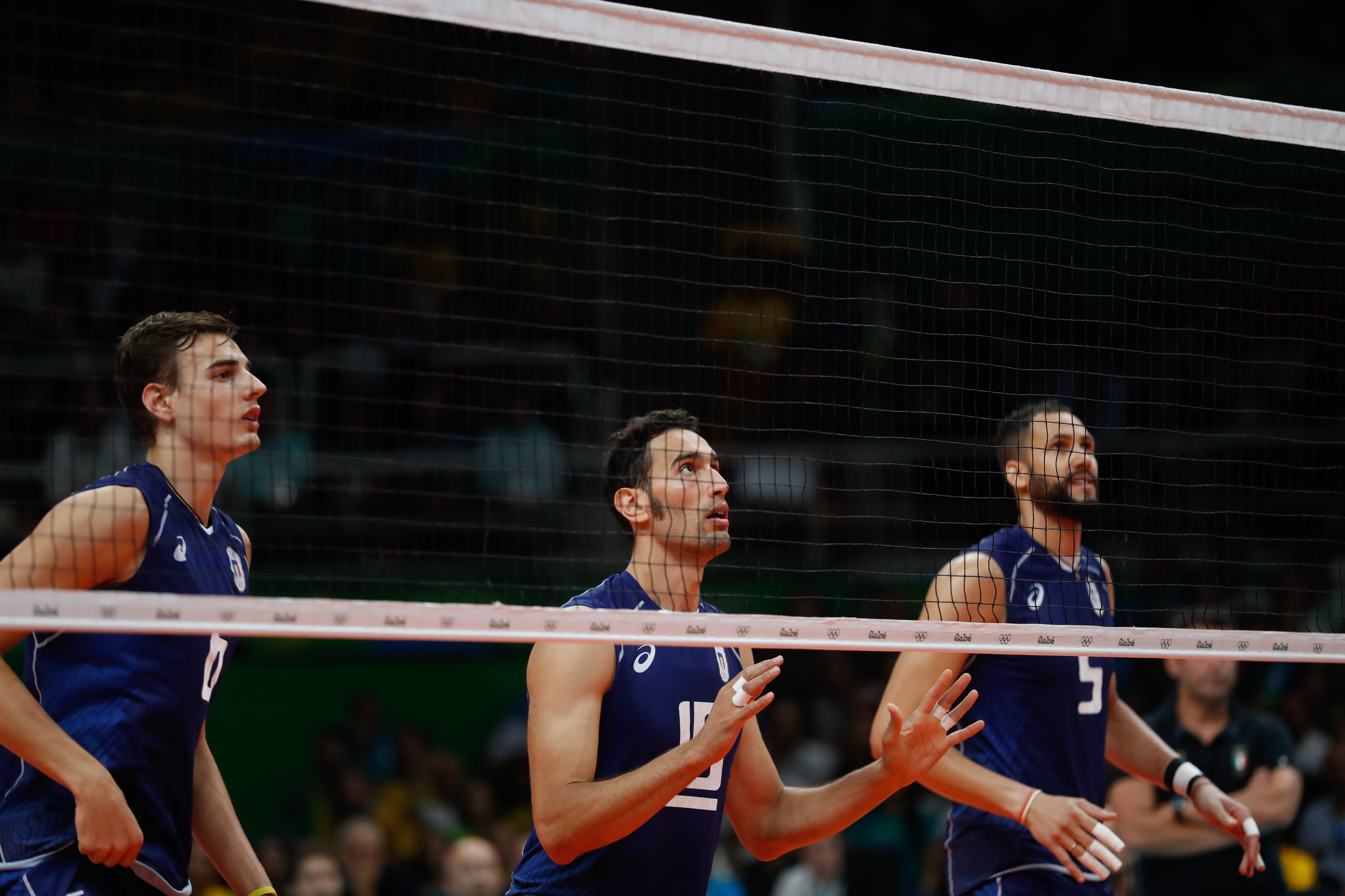 Rio de Janeiro - Seleção brasileira de vôlei disputa contra a Itália a final dos Jogos Olímpicos Rio 2016 no Maracanãzinho(Fernando Frazão/Agência Brasil)